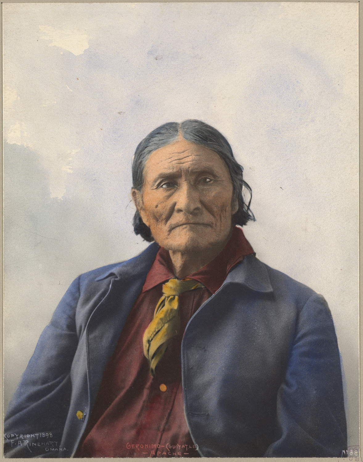 Portrait of Geronimo (Guiyatle), Apache.